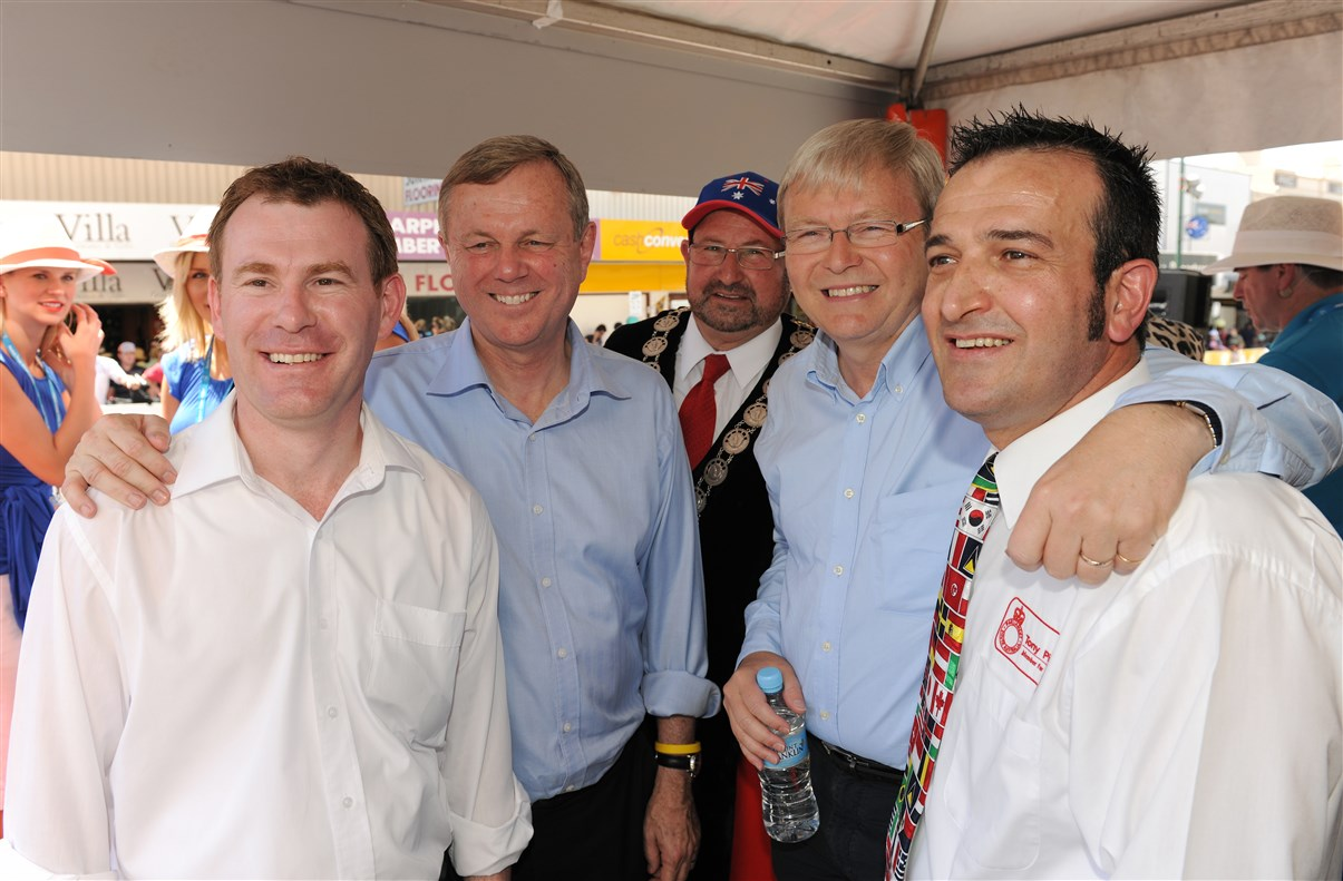 Member for Wakefield Nick Champion, Premier Mike Rann, Mayor Brian Sambell, PM Kevin Rudd and Tony Piccolo MP. We thank Town of Gawler for allowing Gawler History Team to have access to their many old Gawler photos. ToGfile photosDSC_0345-0679 Nick Champion, Mike Rann, Kevin Rudd and Tony Piccolo, Tour Down Under Murray Street Gawler